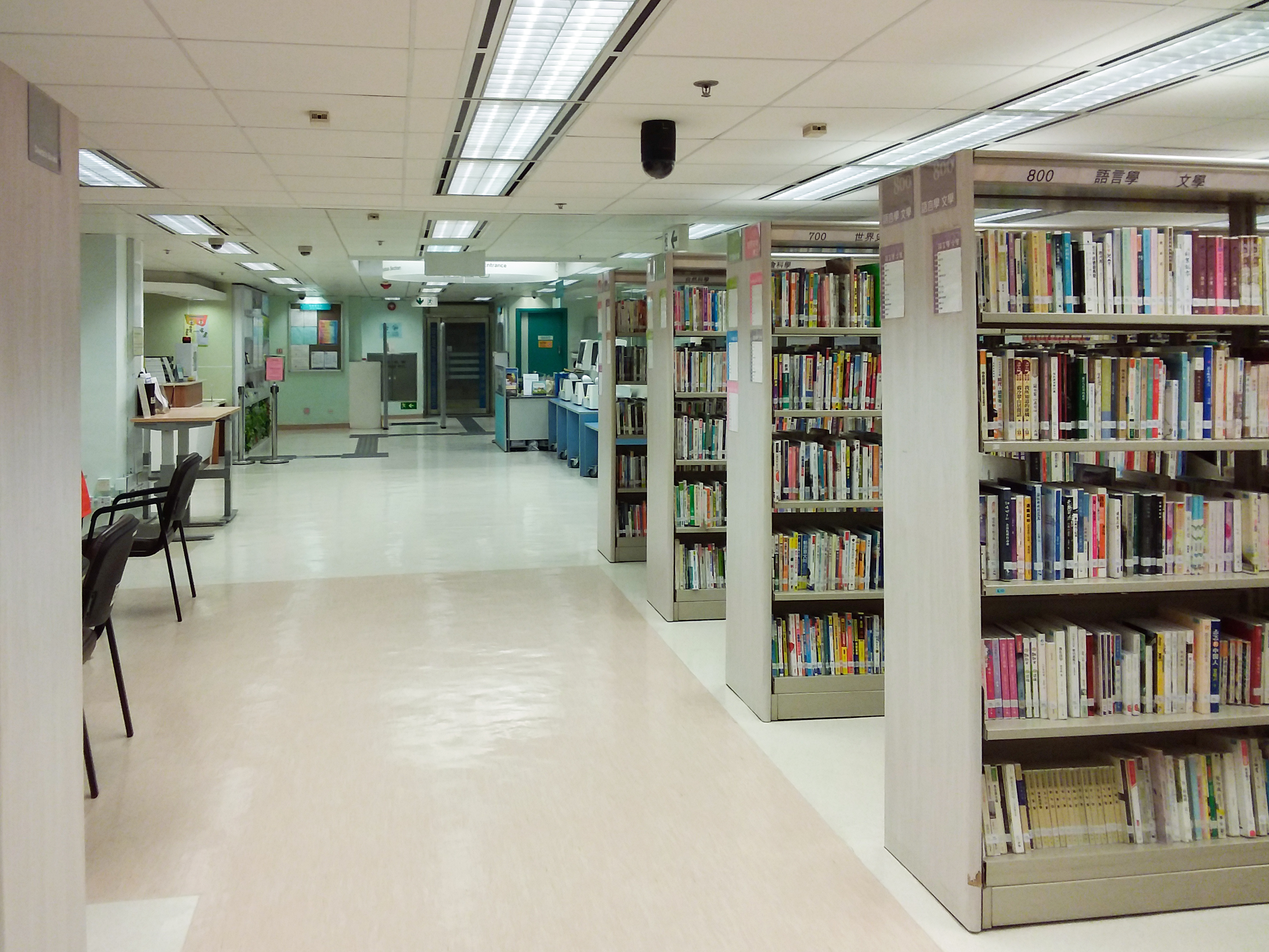 HK 土瓜灣公共圖書館 To Kwa Wan Public Library in January 2019